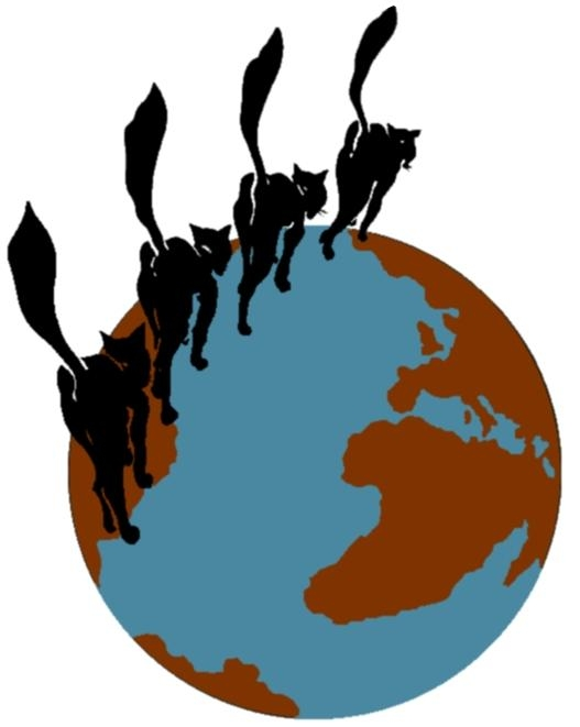 The coat of arms of the Stormo Baltimore, a bombing unit of the Italian Co-Belligerant Air Force, 1944-1948. The "four cats" allude to to an italian idiom commonly used to indicate a very small group of people, and here they refer to the chronic lack of men and equipment of the Italian Royal Air Force, (even before 1944) [1]